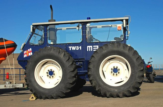 RNLI tractor, Bangor. Bangor lifeboat station currently has a Talus MB 764 County tractor while the Landini station tractor is off for maintenance. The vehicle previously served at Littlestone-on-Sea, Barmouth, Rhyl and Skerries.